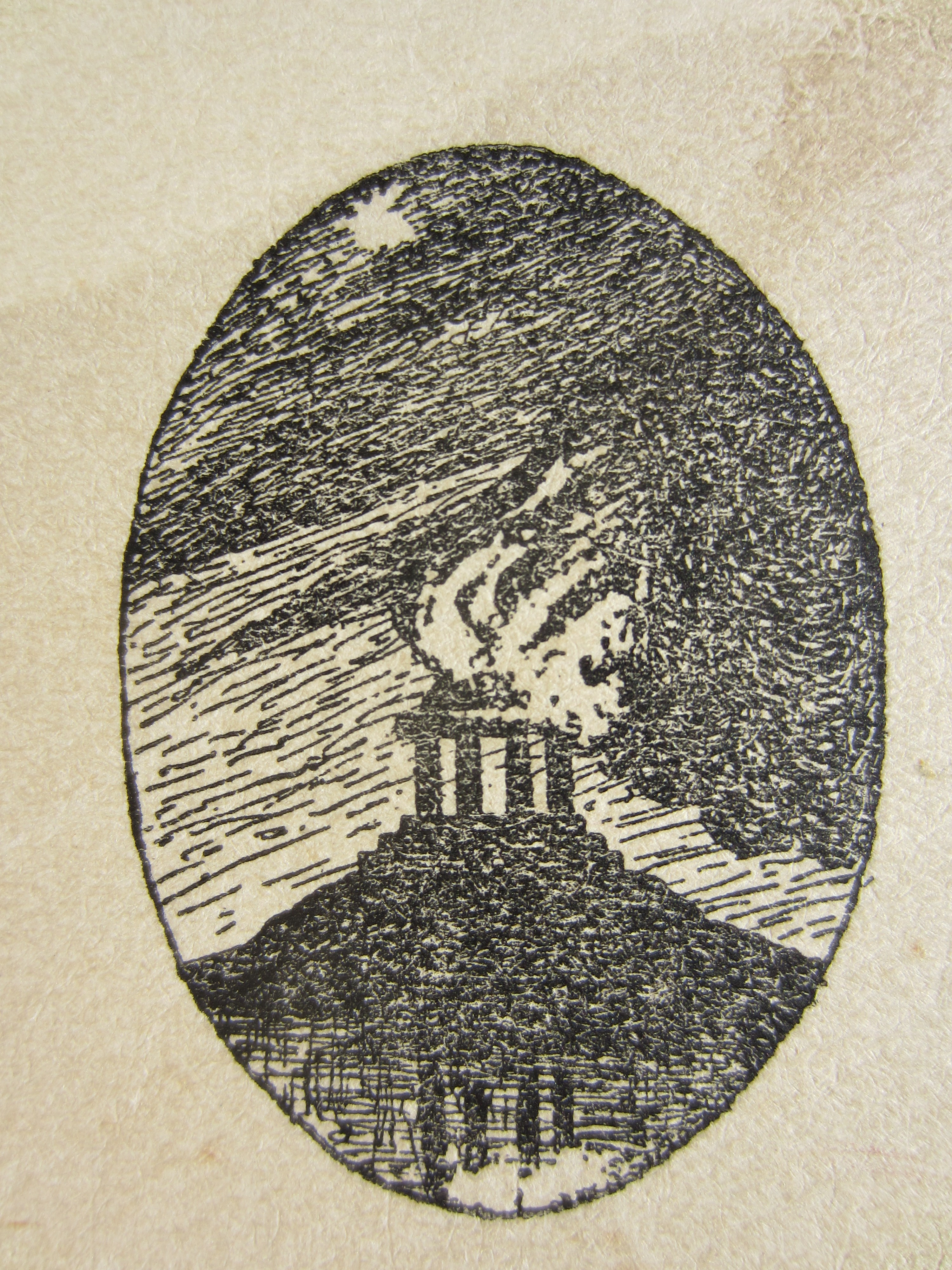 The author Hjalmar Söderberg designed the vignette the of a temple in fire at the front of the novel "The Serious Game" published in 1912.